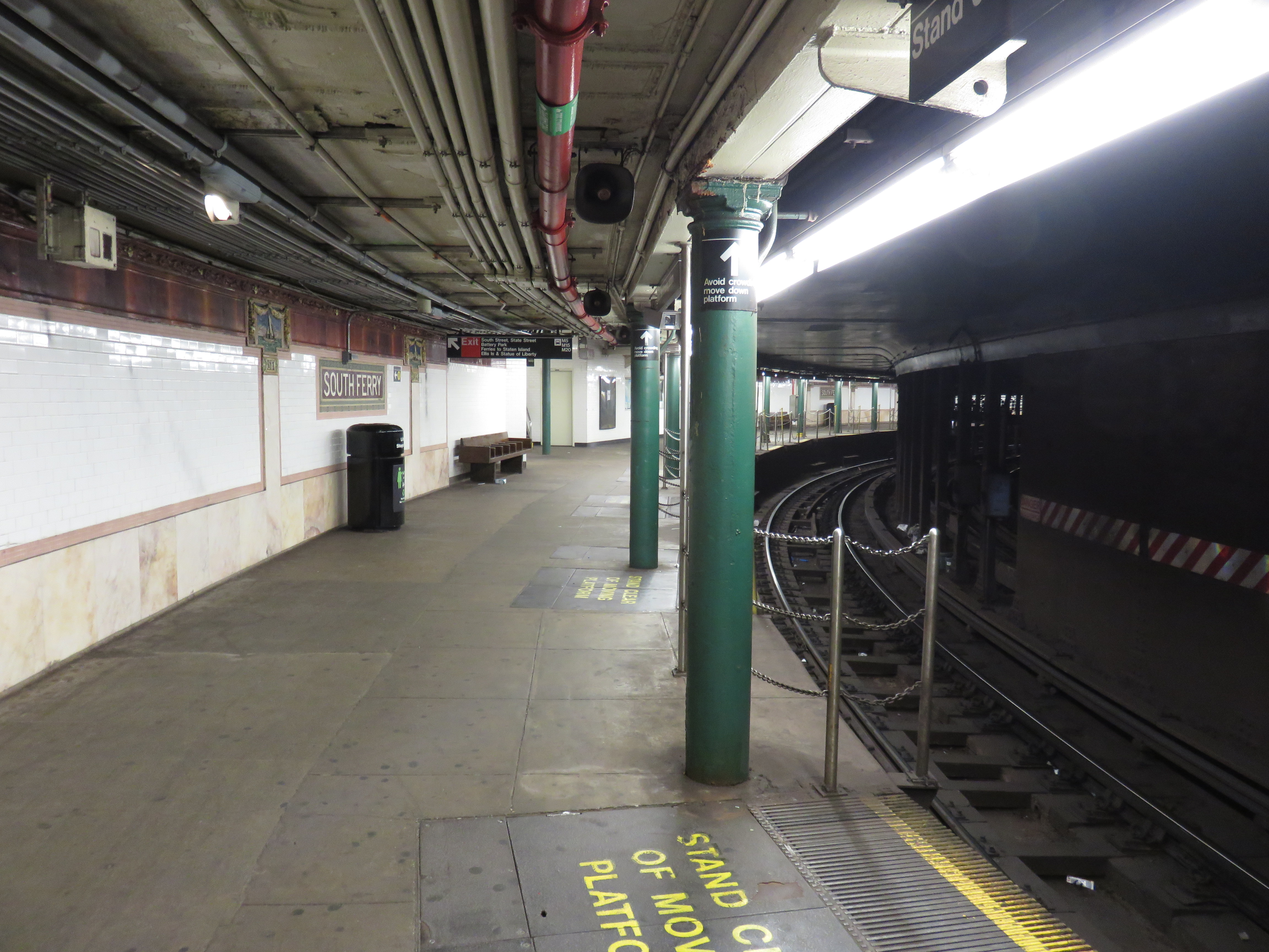 South Ferry NYC Subway station in 2016